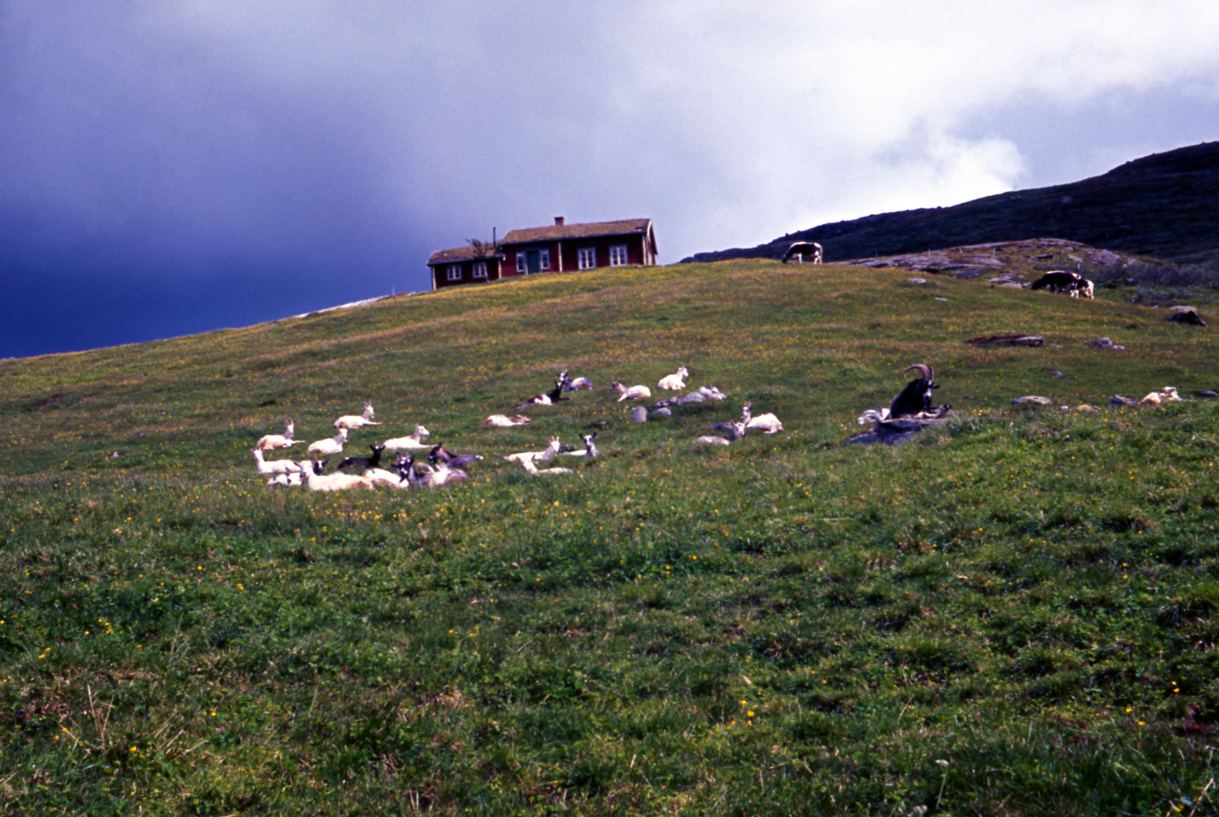 Format: Lysbilde / Dias Dato / Date: Sommeren 1966 Film: Kodak Ektachrome Fotograf / Photographer: Inger Schulstad (1920 - 2010) Sted / Place: Skarvatnet-området, Oppdal, Sør-Trøndelag Wikipedia: Seter Eier / Owner Institution: Trondheim byarkiv, The Municipal Archives of Trondheim Arkivreferanse / Archive reference: Tor.H49.B02.B1796 (Boks 29)